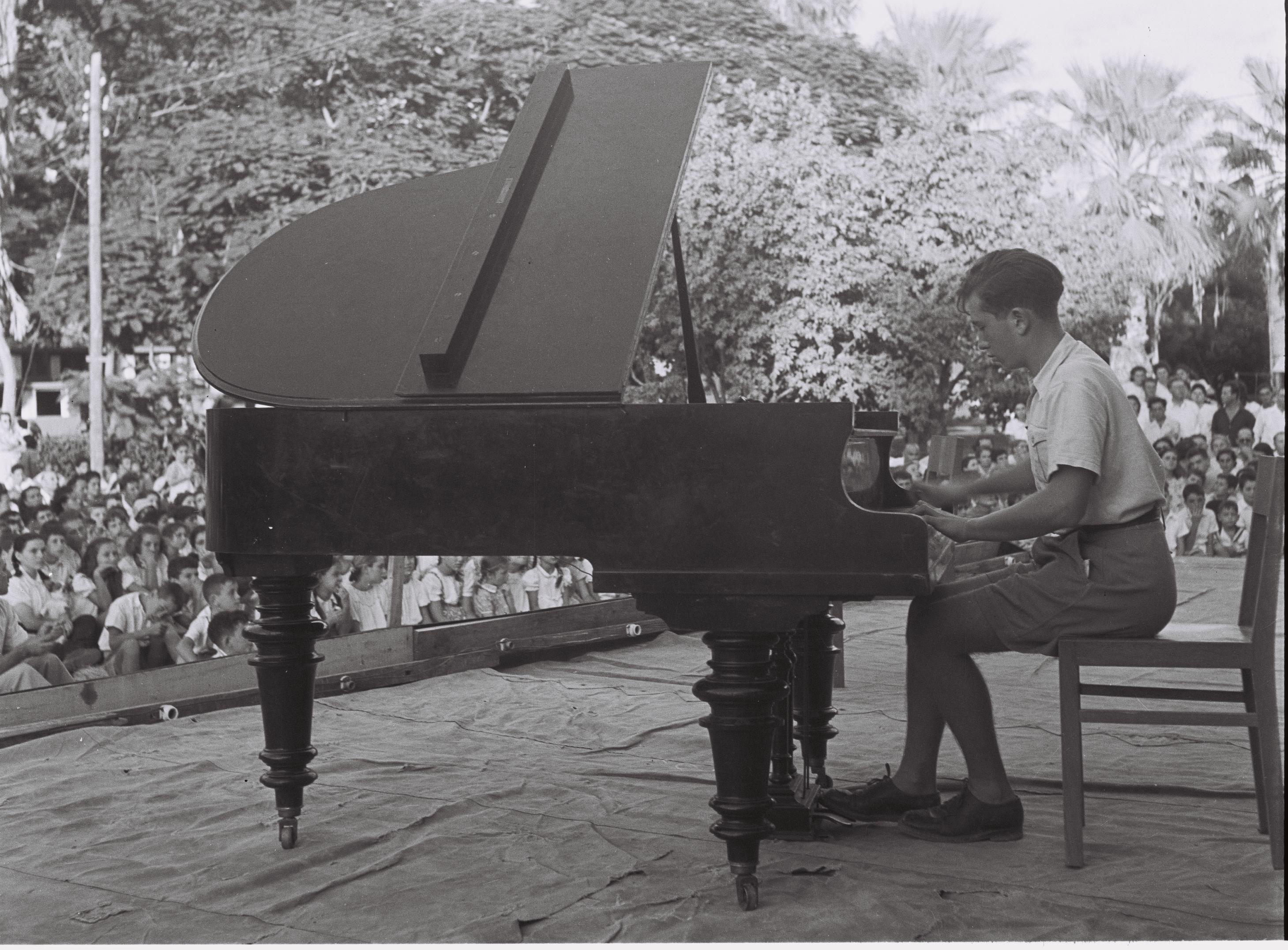 Prodigy pianist Sigi Weissenberg plays during the 25th anniversary celebration at Kibbutz Degania. הפסנתרן בחסד, סיגי ויסנברג, מנגן בחגיגות ה-25 להיווסדו של קיבוץ דגניה Photo: Zoltan Kluger (1896–1977) Alternative names Qlwger, Zwlṭan; Zolṭan Ḳluger; Kluger, Z.; W. von Szigethy; W. Von SzighethyDescriptionHungarian-Israeli photographerDate of birth/death 8 February 1896 16 May 1977Location of birth/death Kecskemét ManhattanAuthority control : Q7035699 VIAF: 19504001 ISNI: 0000 0000 6686 1613 ULAN: 500483392 LCCN: no2008144265 Open Library: OL6614008A WorldCat creator QS:P170,Q7035699 , 10/30/1947